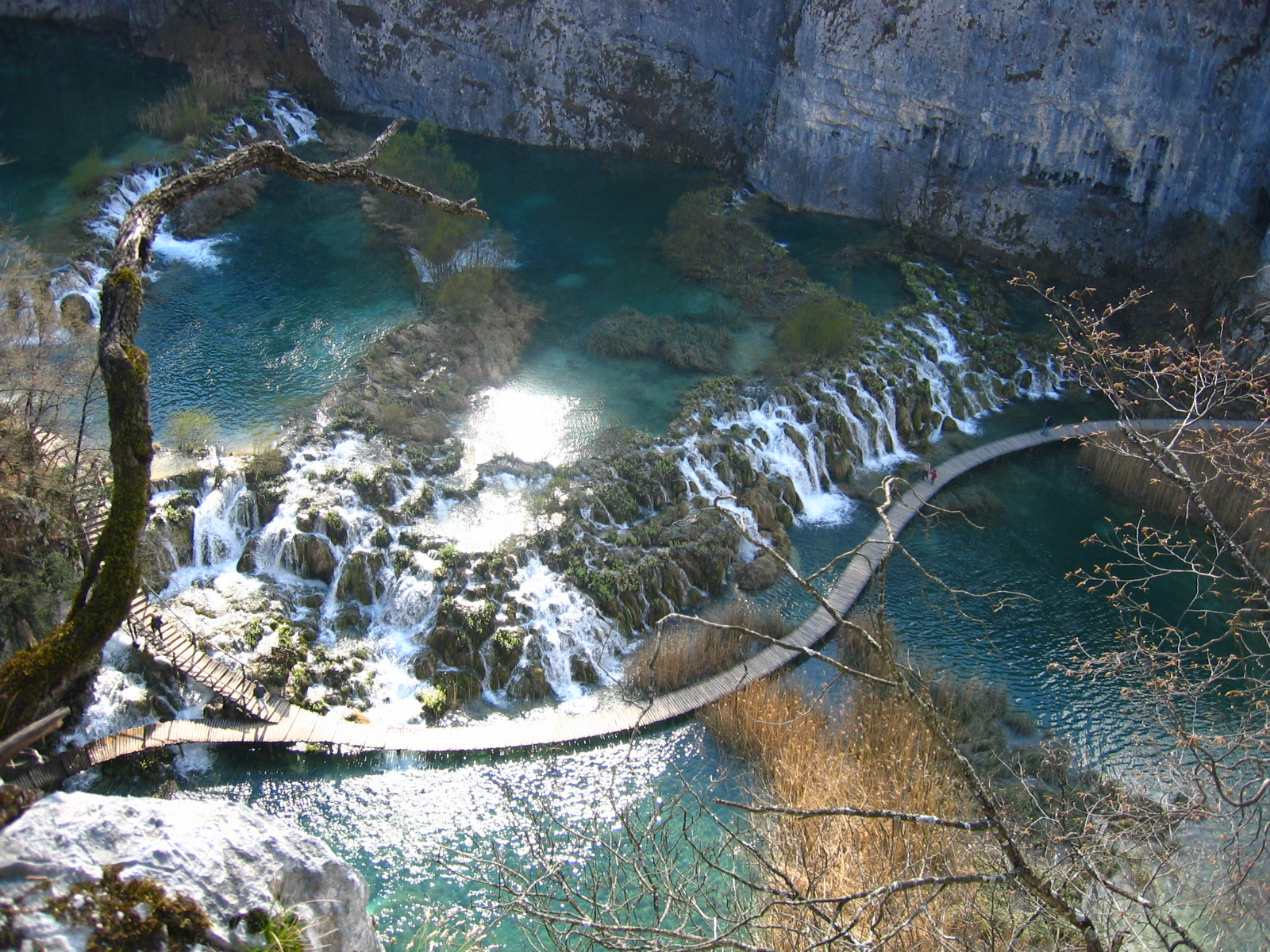 National Park Plitvice Lakes (Croatia), Barrier between Gavanovac and Kaluđerovac